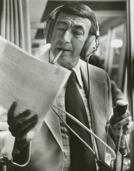 Publicity photo of Howard Cosell from Monday Night Football.